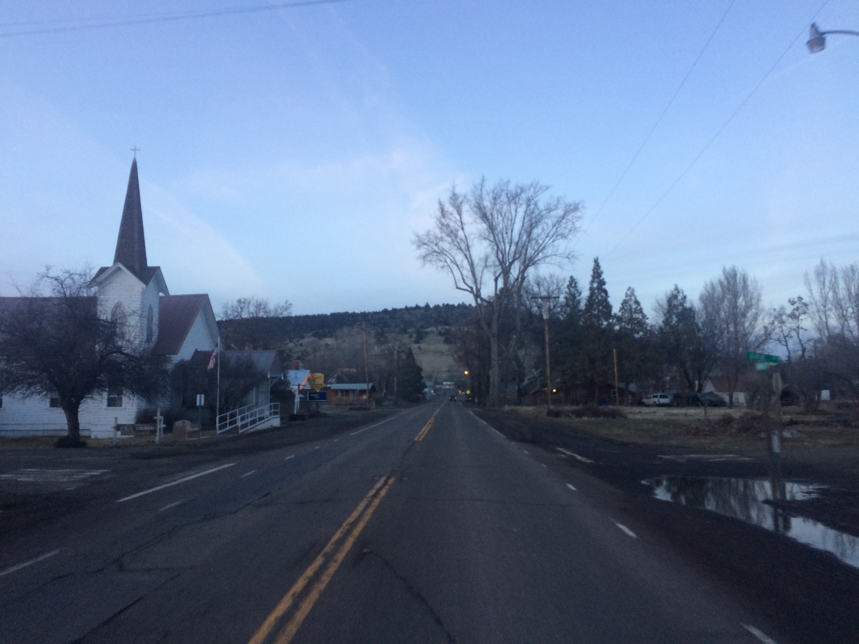 The community of Adin California, seen from the main road